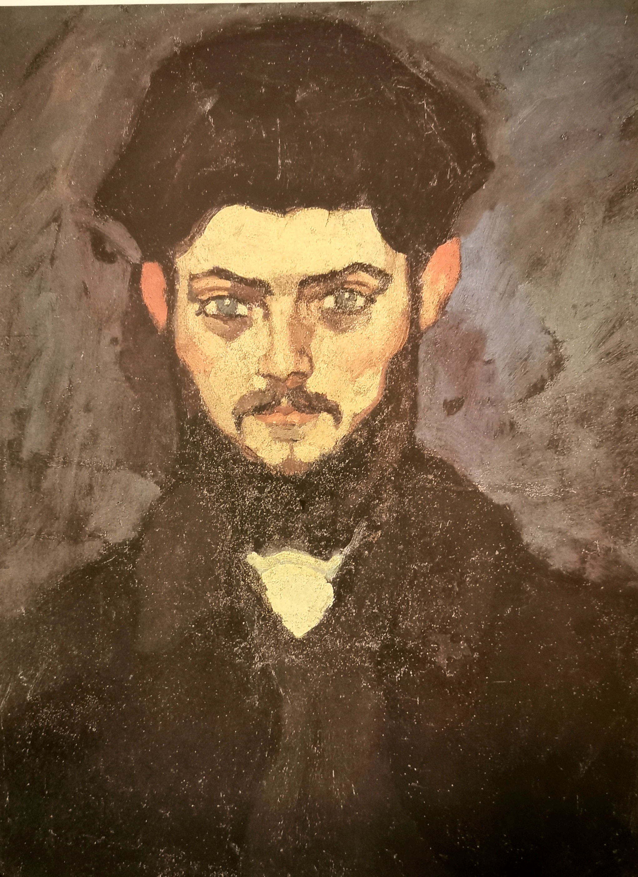 Maurice Drouart, oil on canvas, dim.: 61 x 46 cm. Private collection. This painting appears on a photographic picture taken in 1913. Paris, Galerie Charpentier, Cent Tableaux de Modigiani, 1958, #12 [sold?]